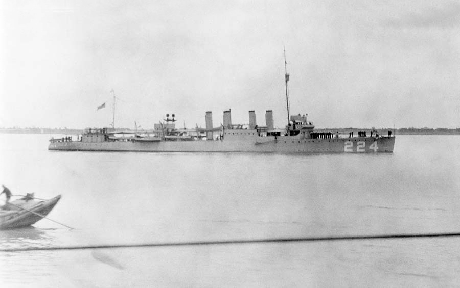 The U.S. Navy destroyer USS Stewart (DD-224) off Hangzhou, China, circa 1922. Note the steering oar in use on the sampan in the far left.